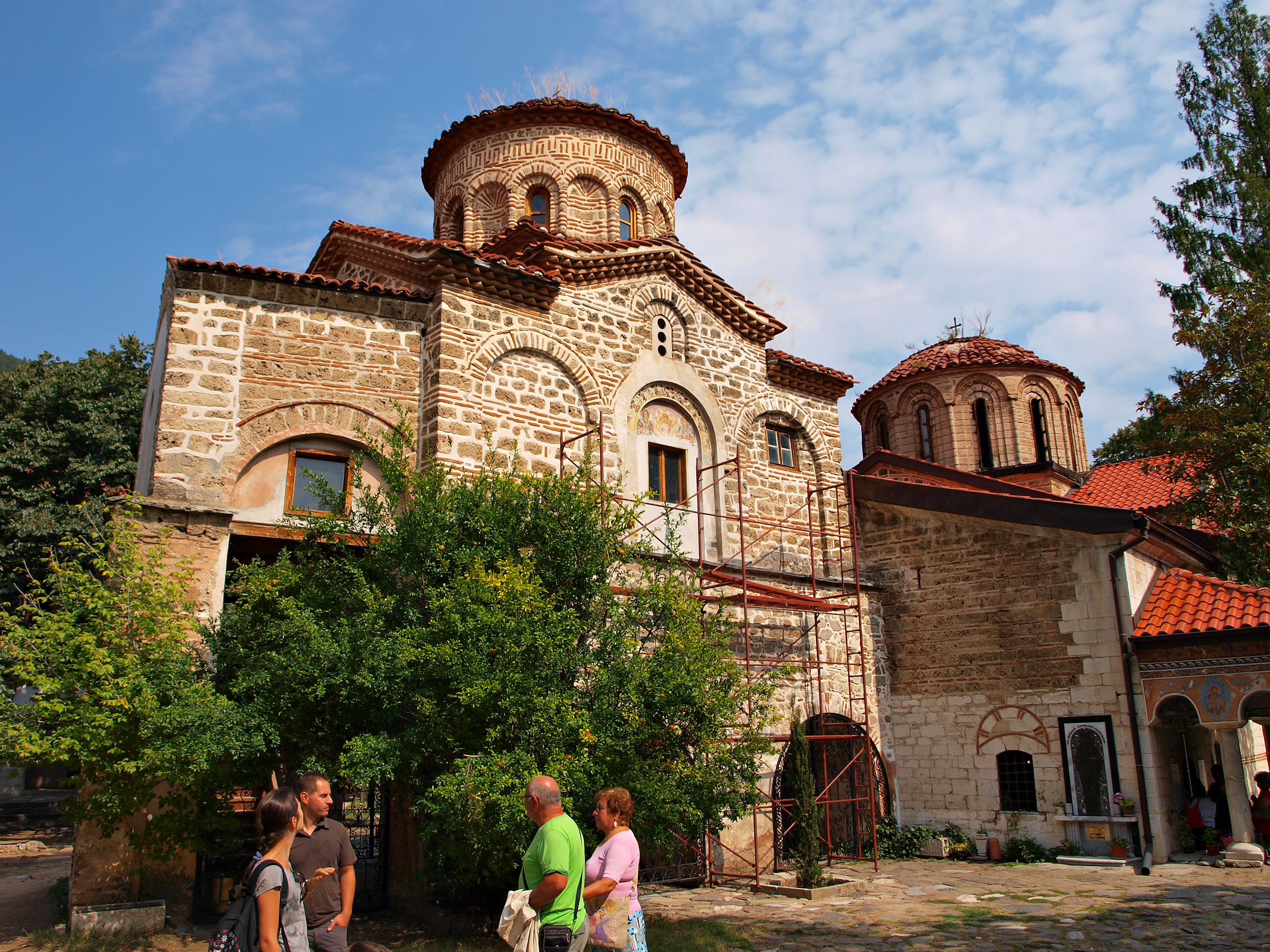 Church of the Holy Archangels Michael & Gabriel, Bachkovo Monastery, Bulgaria